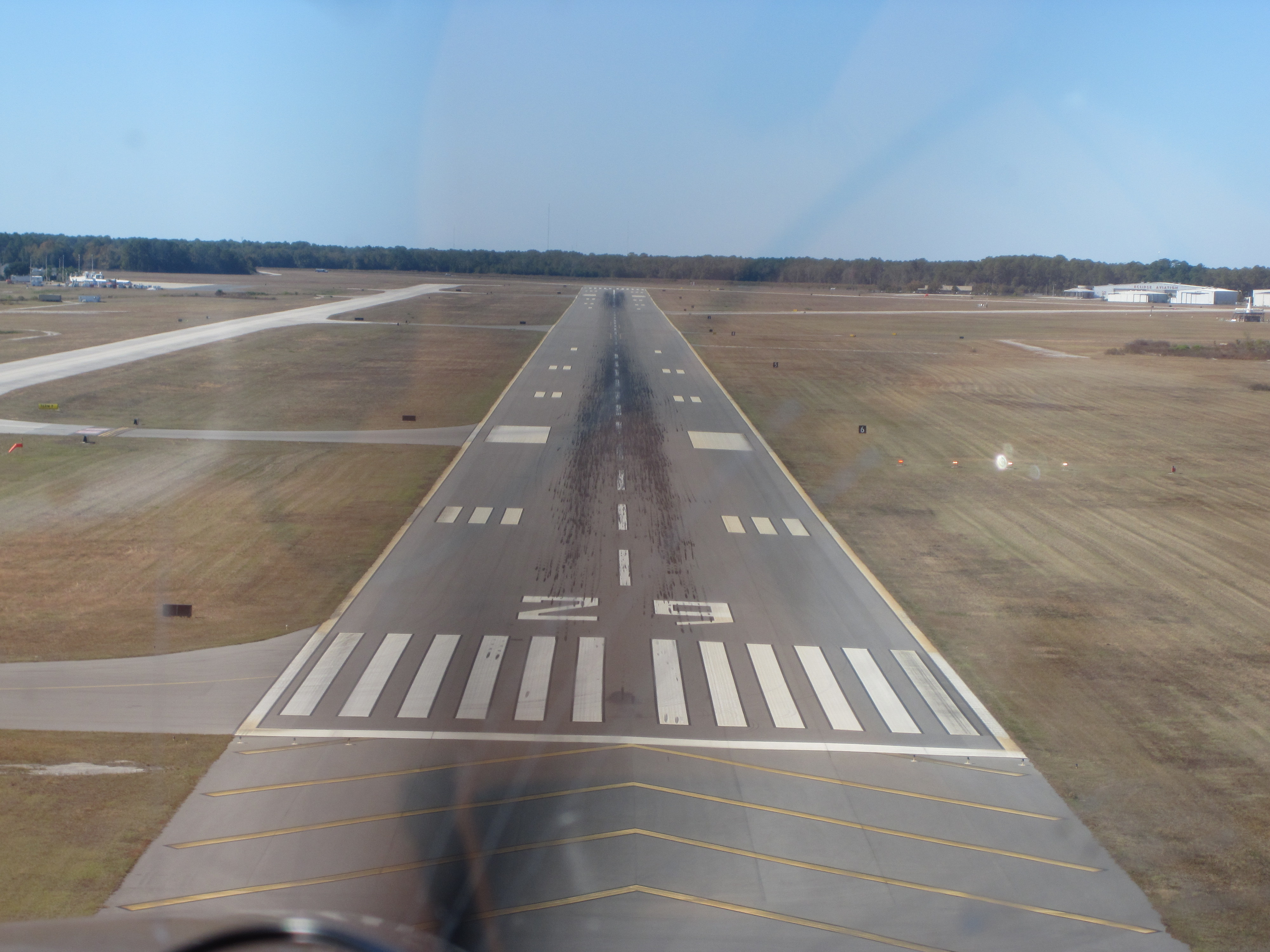 Final approach to Runway 29 at Gainesville Regional Airport